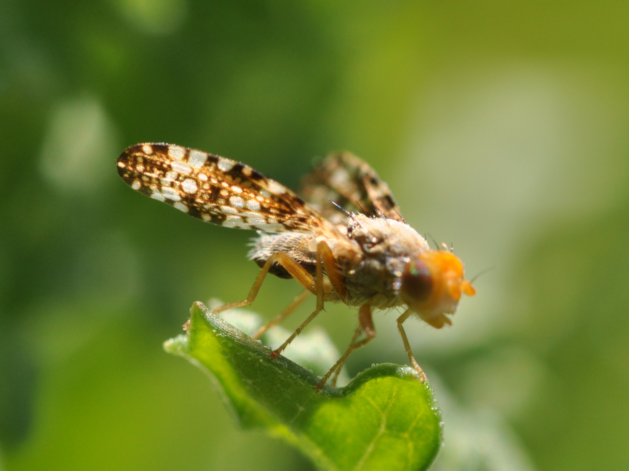 Fruit fly Oxyna prietina in Bahrenfeld, Hamburg.